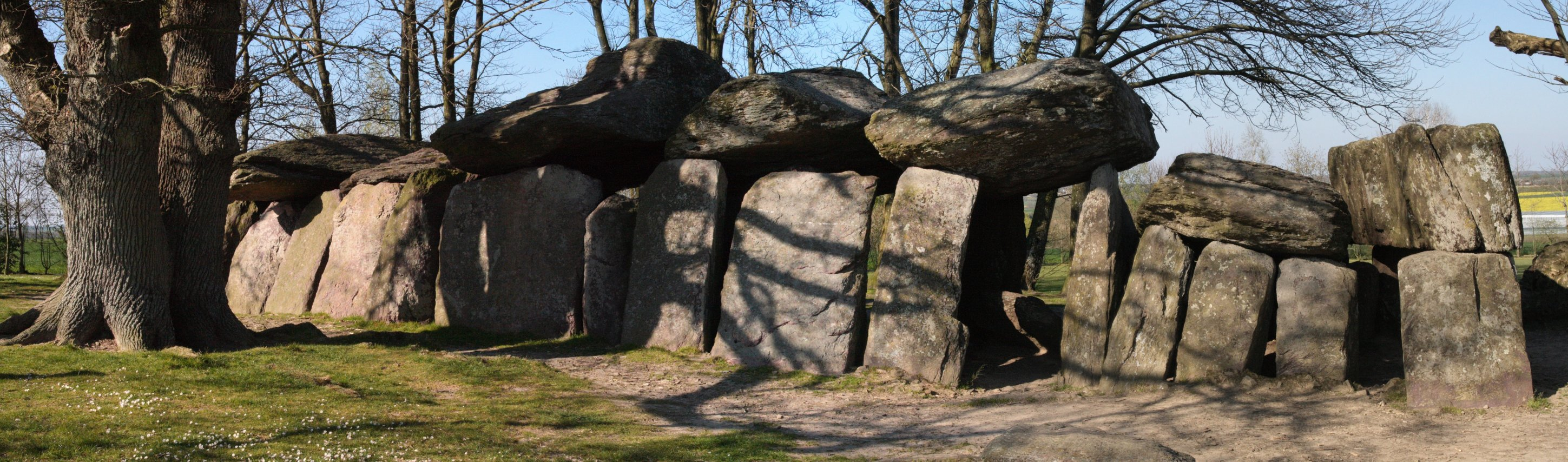 La Roche-aux-Fées, village of Essé, Ille-et-Vilaine, Brittany, France. It's a dolmen (gallery grave), the biggest in France, built near 2500 ~ 2000 B.C.